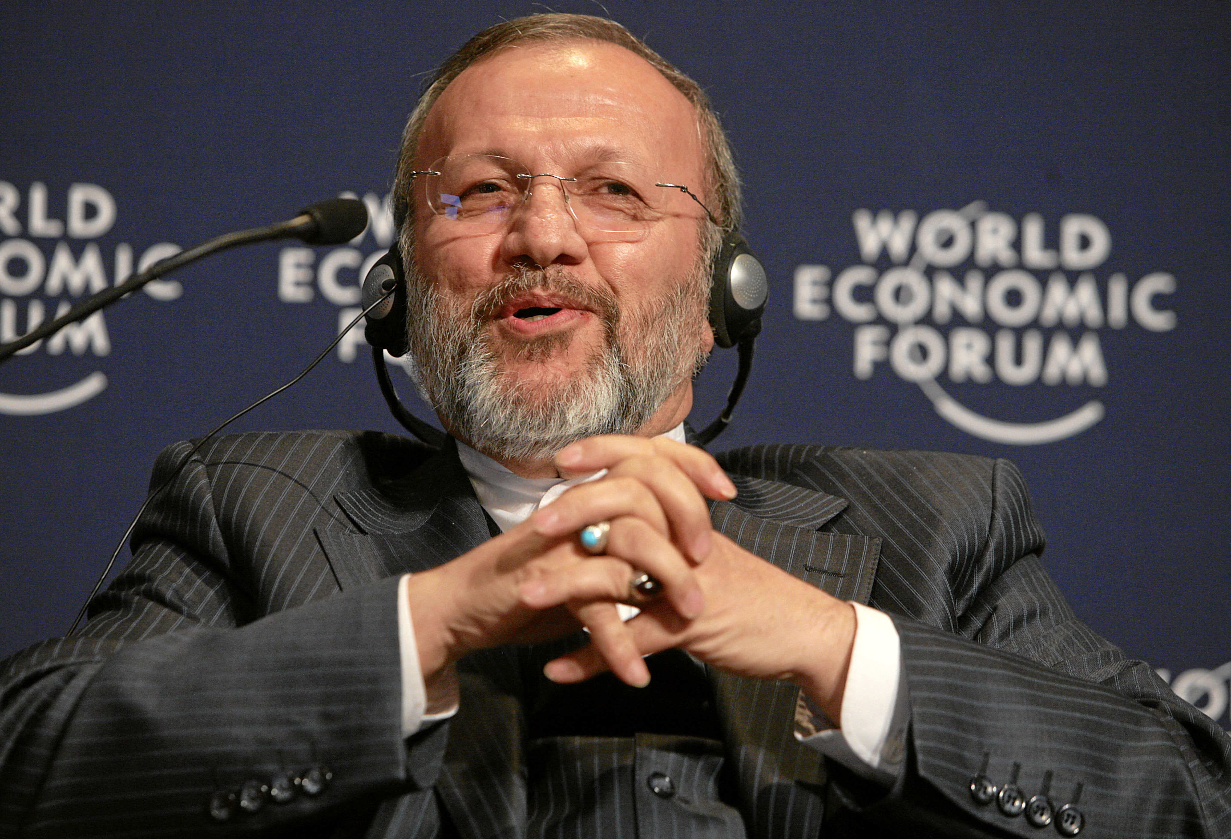 DAVOS/SWITZERLAND, 26JAN08 - Manouchehr Mottaki, Minister of Foreign Affairs of the Islamic Republic of Iran, captured during the session 'Understanding Iran's Foreign Policy' at the Annual Meeting 2008 of the World Economic Forum in Davos, Switzerland, January 26, 2008.